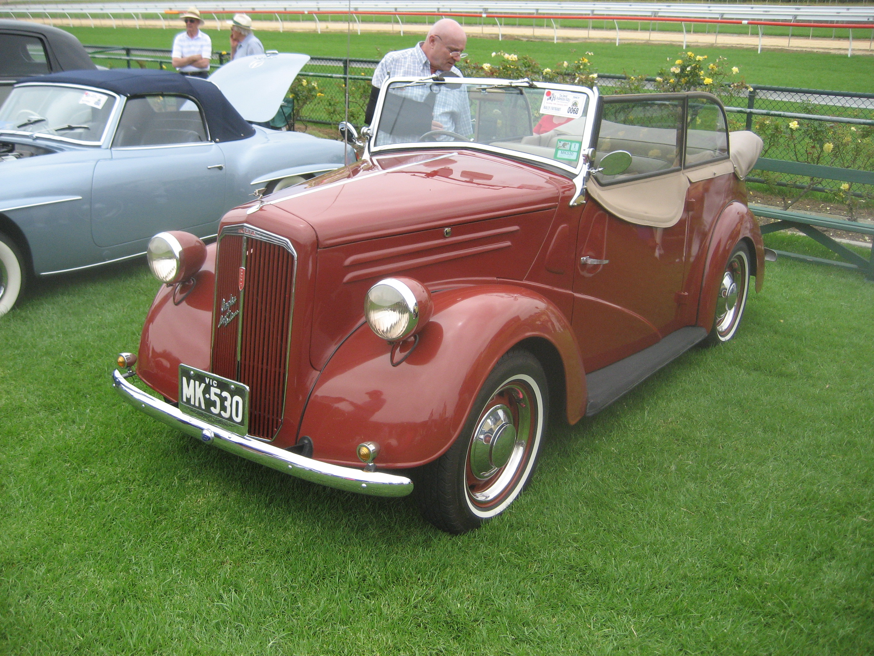 Australian built 1948 Ford Anglia A54A Tourer. Although identified at as a 1942 Anglia E04A, the registration details available at indicate that it was actually manufactured in 1948, which makes it an A54A rather than a E04A. This is supported by the fact that it has running boards, which were absent from the E04A Tourer. In addition, it has the vertically divided radiator grille of the final A54A model.